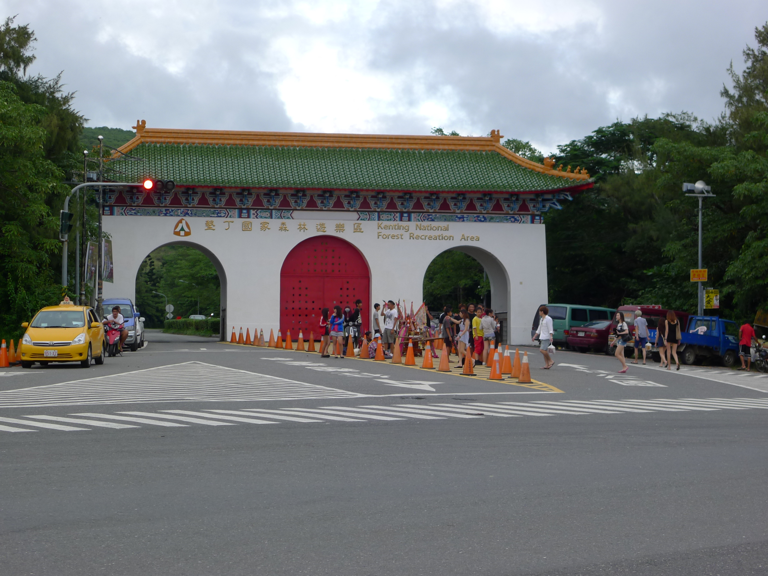 Tourists gathered at the entrance to Kenting National Forest Recreation Area.